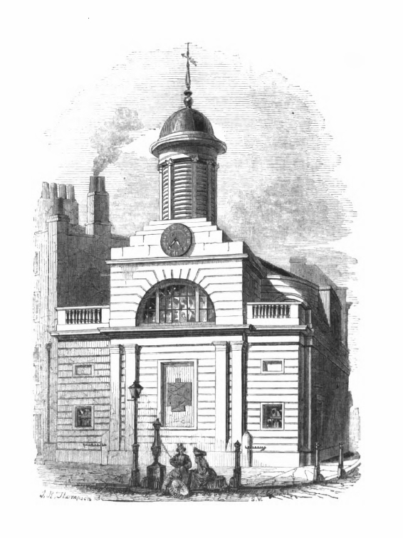 Early 19th century wood engraving of the church of St Martin Outwich in the City of London.